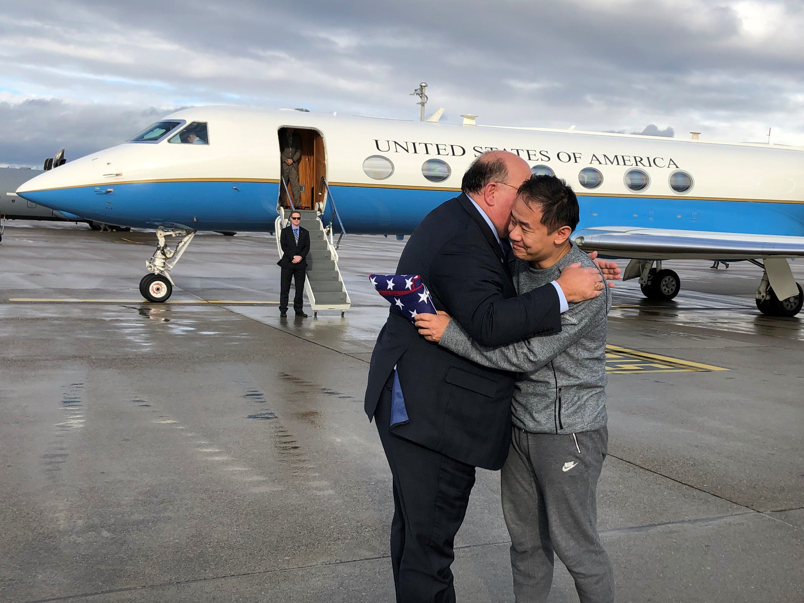 Ambassador McMullen was honored to present the American flag to freed U.S. prisoner Xiyue Wang, who has been held on false charges in Iran for three years.